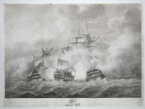 To the Memory of the Brave Capt John Harvey the Officers & Crew who fell in the Action and to the Surviving Officers and Crew of His Majesty's Ship the Brunswick, This print representing the Brunswick after breaking the Enemy's Line, as second astern to Admiral earl Howe on the First of June, 1794. Grappled to and Engaging Le Vengeur with her Starboard Guns, and totally dismasting L'Achille in an attempt to board on the Larboard Quarter is Respectfully inscribed. By Nicholas Pocock.